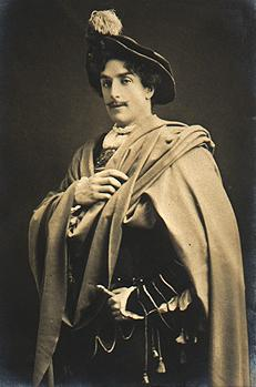 american stage and film actor Walter Hampden (1879-1955), as Lucentio in the Shakespeare's play The Taming of the Shrew, London, Adelphi Theatre, 1904